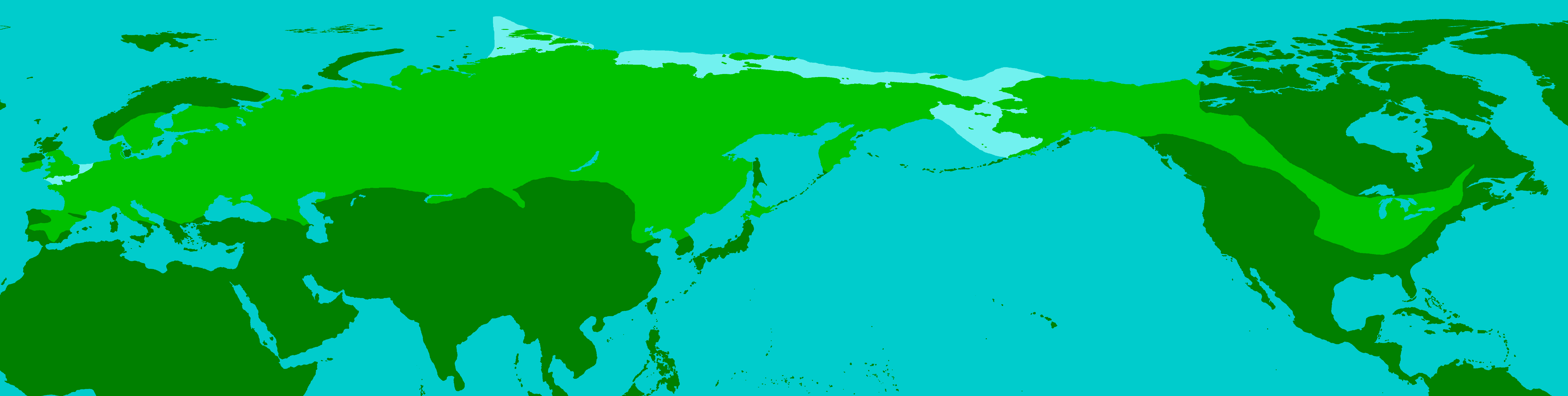 Distribution of woolly mammoth in the late glacial (Weichselian glaciation).